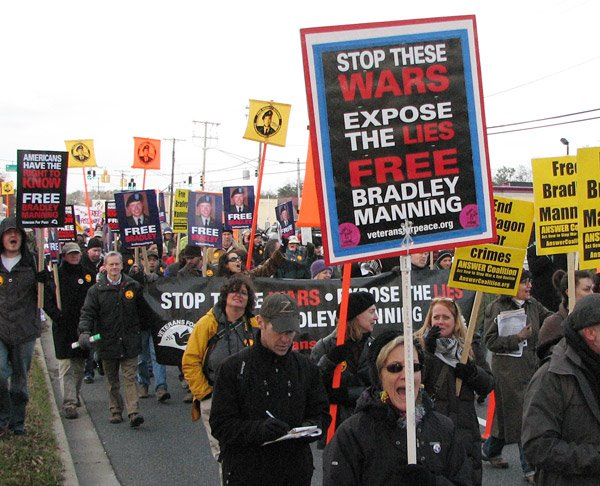 Rally at Ft Meade for Bradley Manning's article 32 hearing